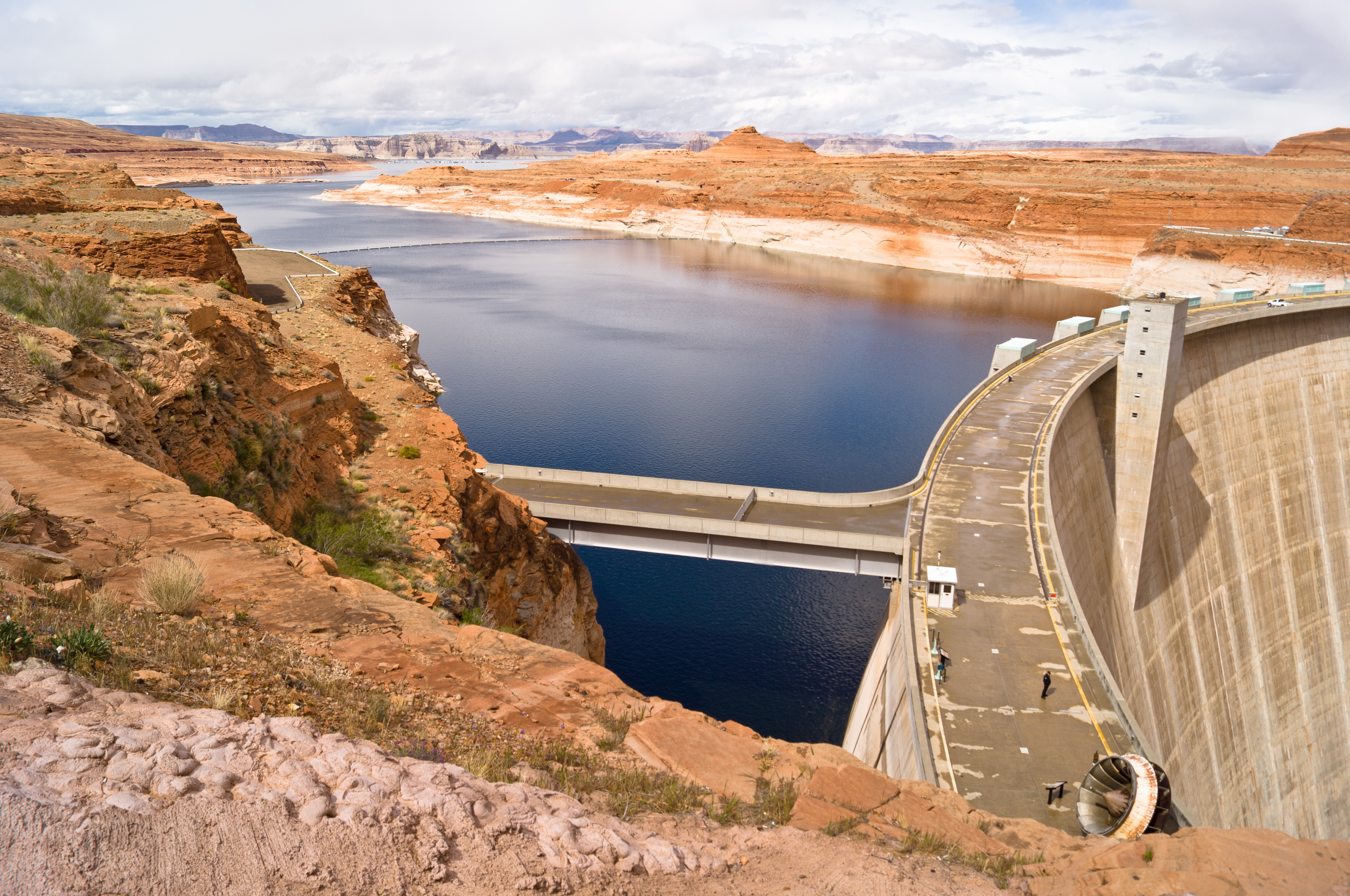 Lake Powell seen from Glen Canyon Dam.